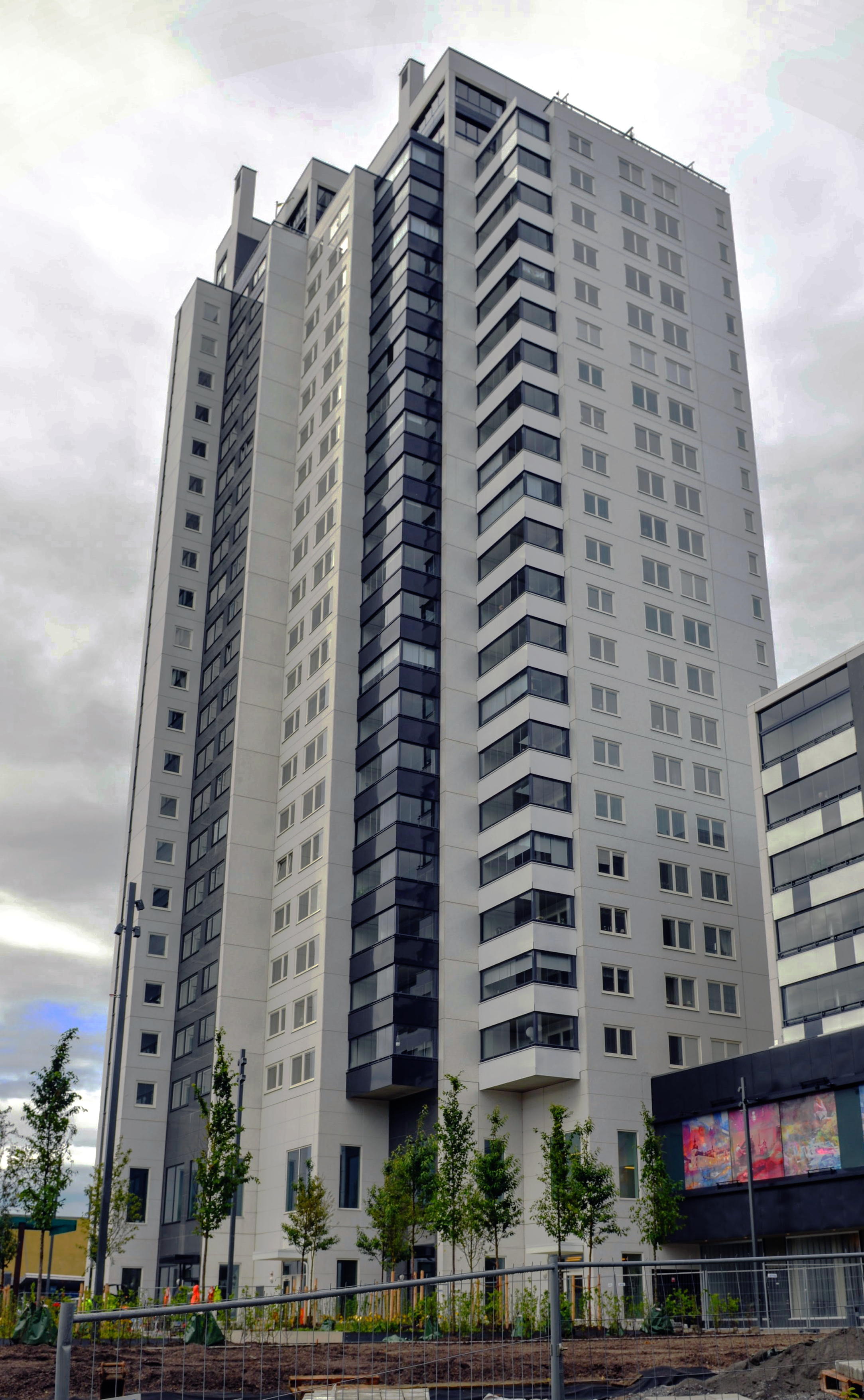 Tyresö View in Tyresö Municipality, Sweden.